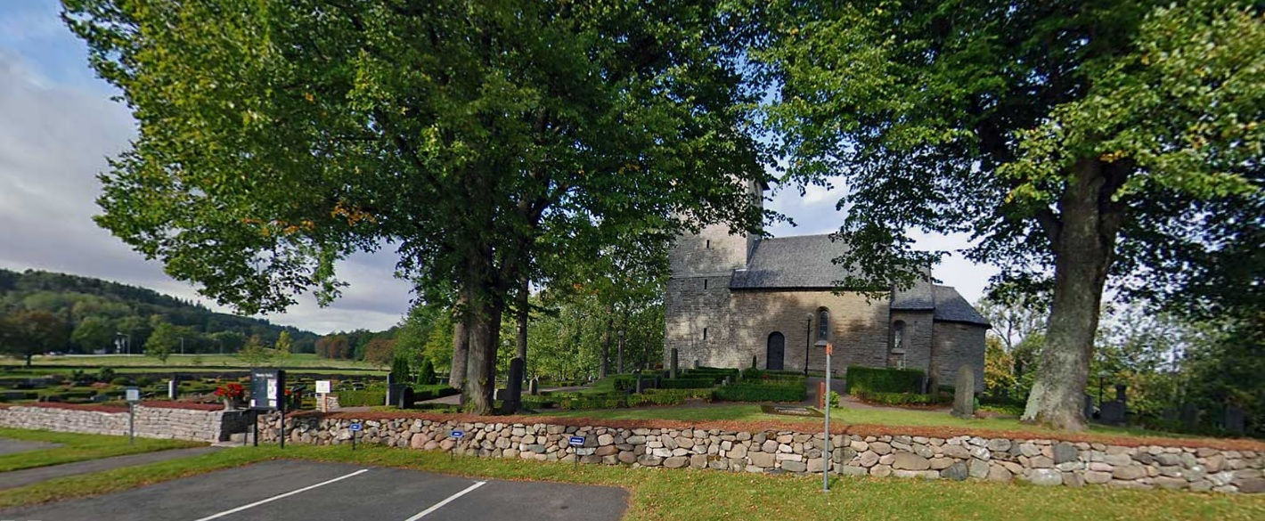 The church of Våmb in Skövde, Västergötland, Västra Götaland county, Sweden.